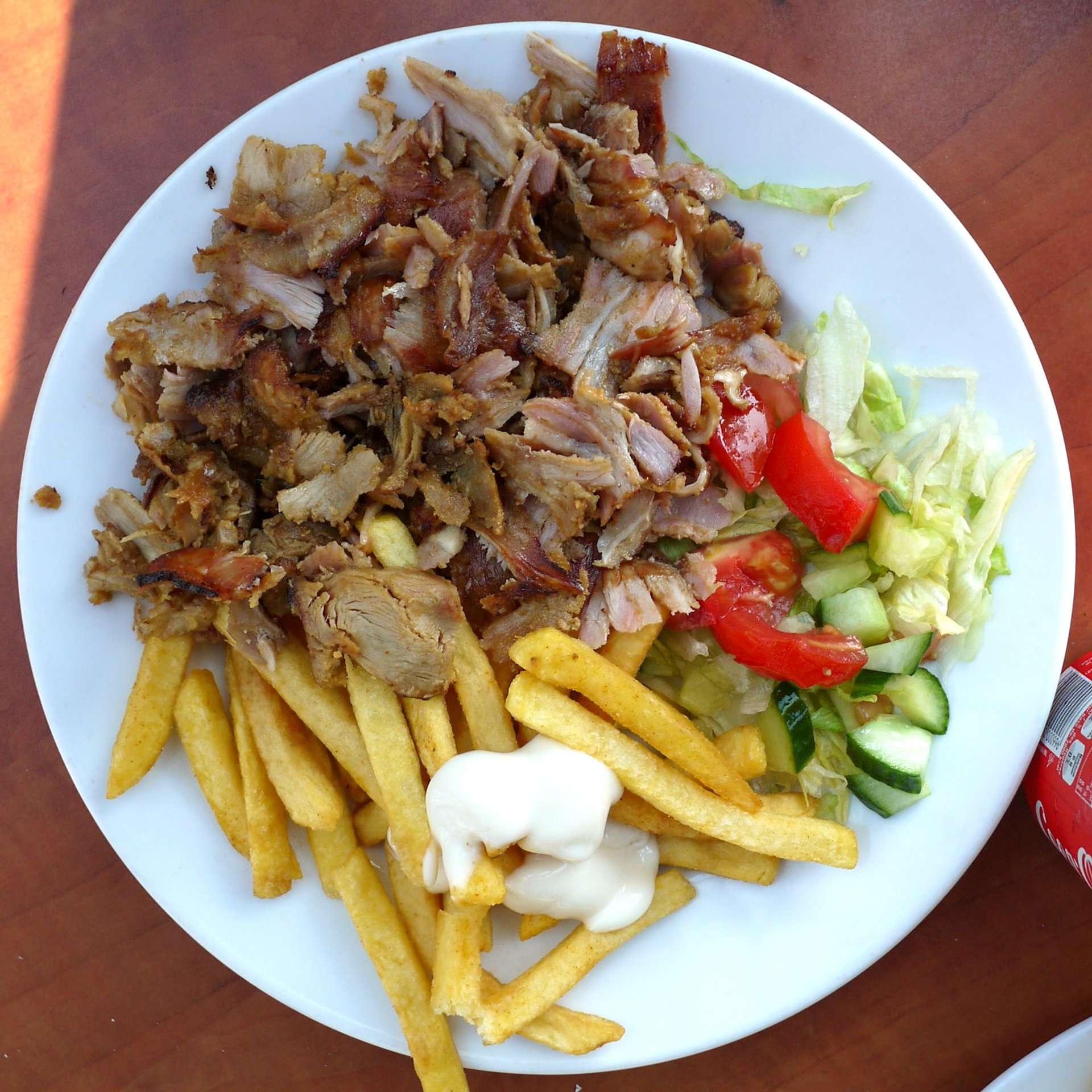 A Dönerschotel at a snack bar in the Netherlands: sliced "döner-style" grilled veal, French fries, and a simple salad.